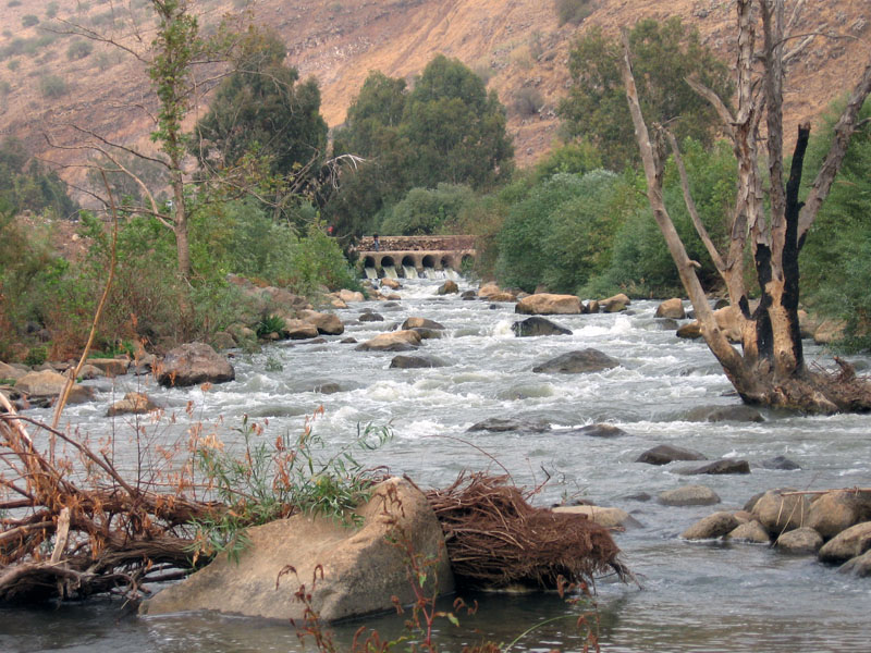 Jordan River